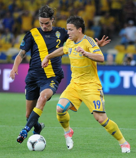 UEFA Euro 2012 match between Ukraine and Sweden that took place in Kiev. Final result was 2:1 (2xShevchenko - Ibrahimović)